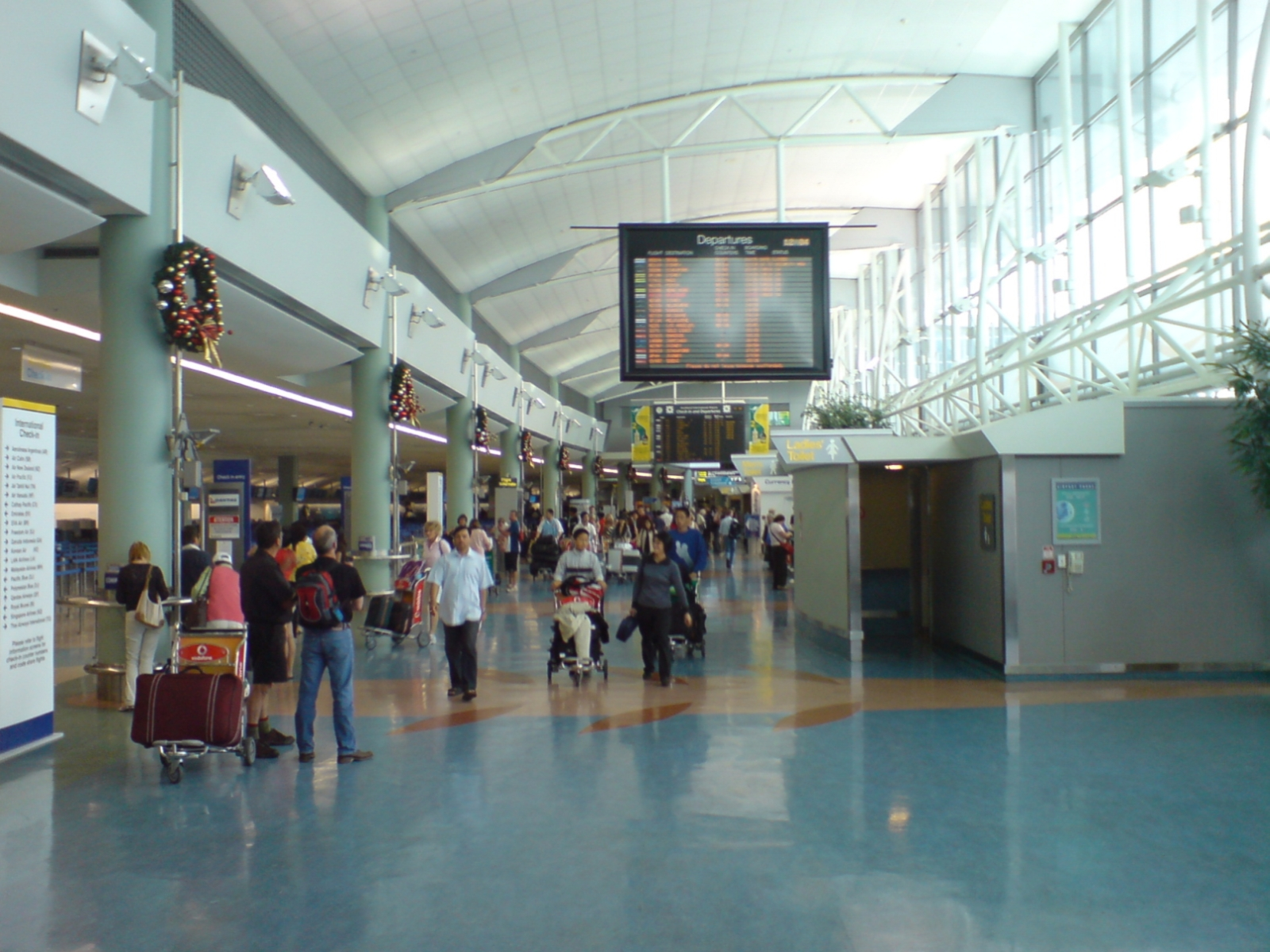 The main hall (check-in areas) in Auckland International Airport, New Zealand, looking westwards.